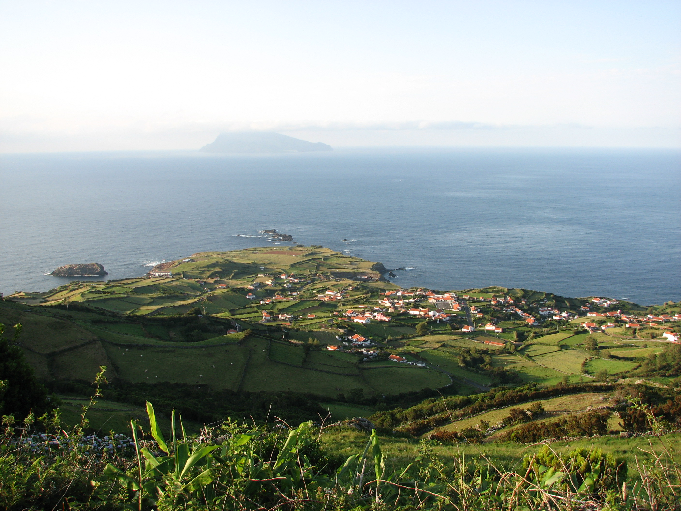 The village of Ponta Delgada das Flores, Azores, with Corvo island at the horizon.